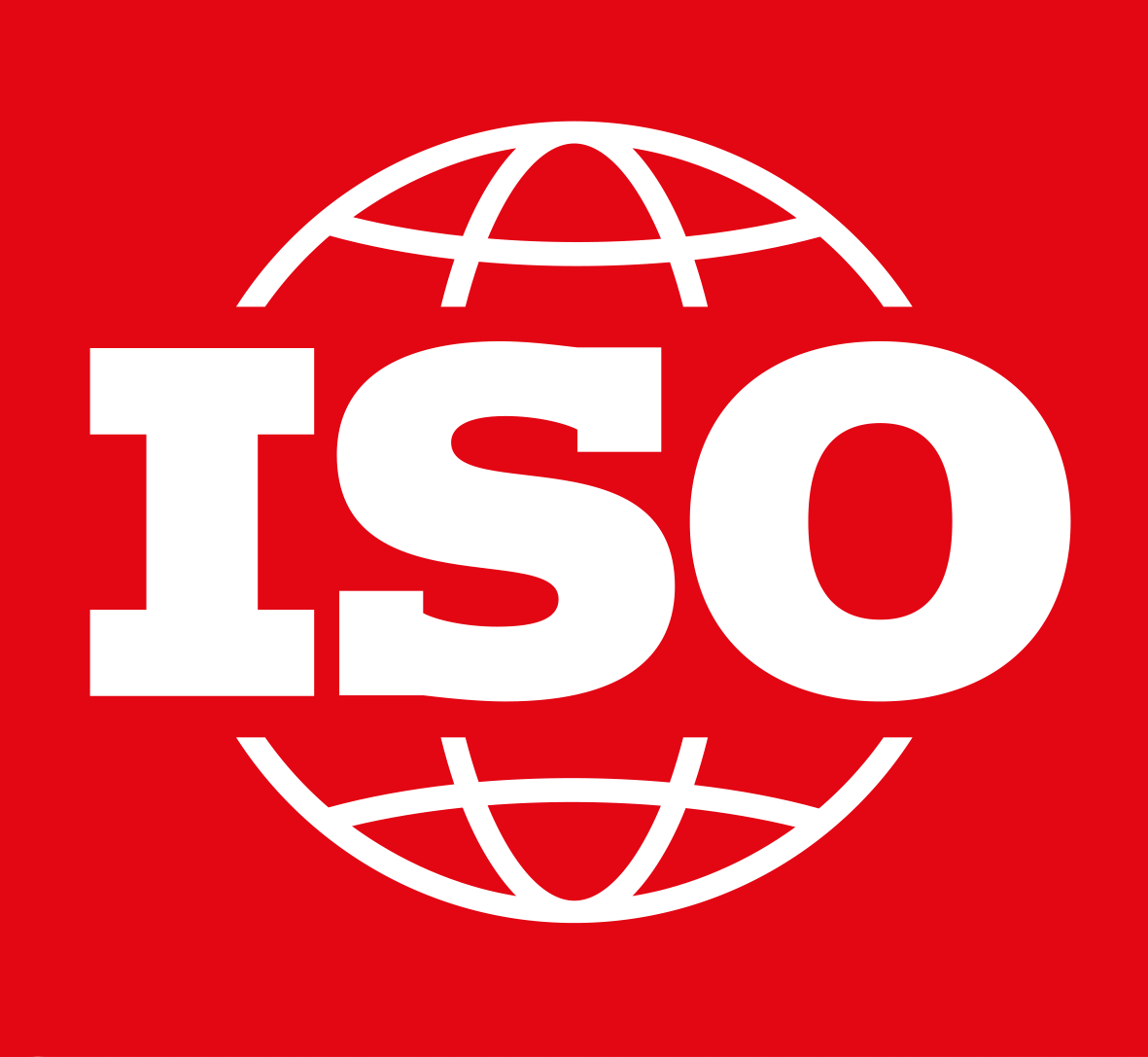 International Organization for Standardization (ISO) logo